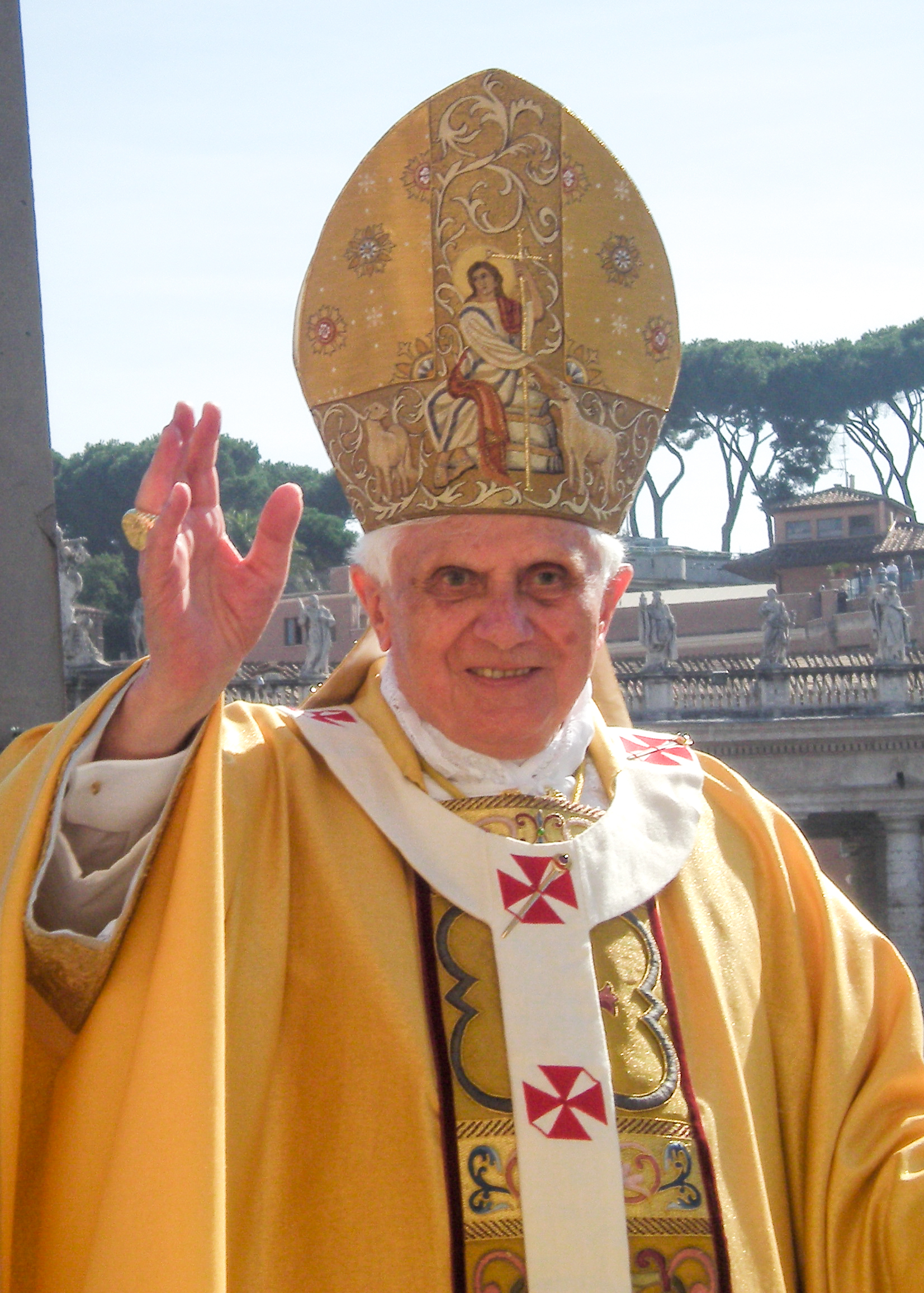 Pope Benedict XVI performing a blessing during the canonization mass in St. Peter's Square in Rome, Italy on Sunday October 12, 2008